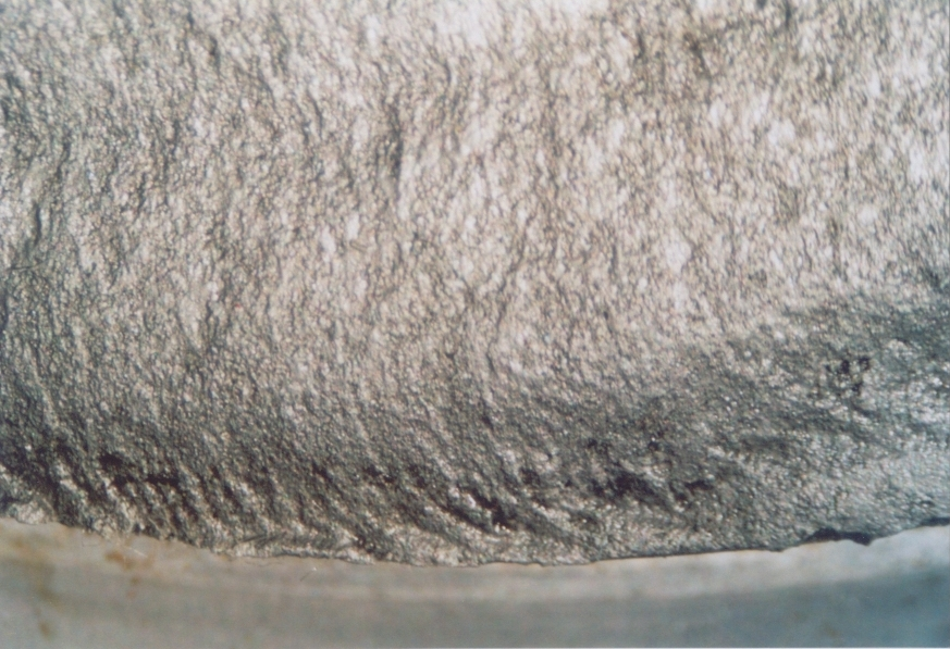 Metallographic microscope magnification of a fragment of diesel piston.